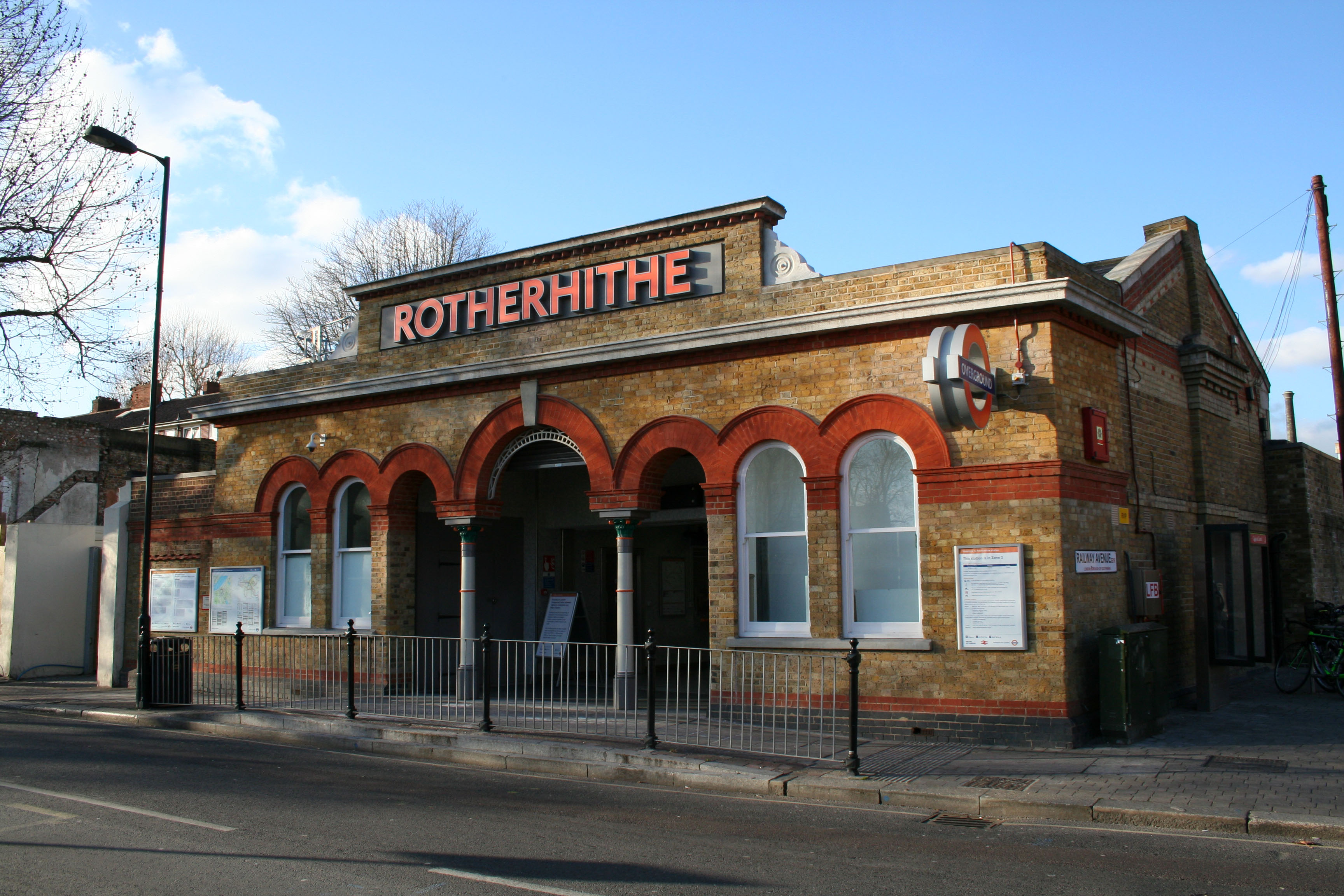 Rotherhithe Station